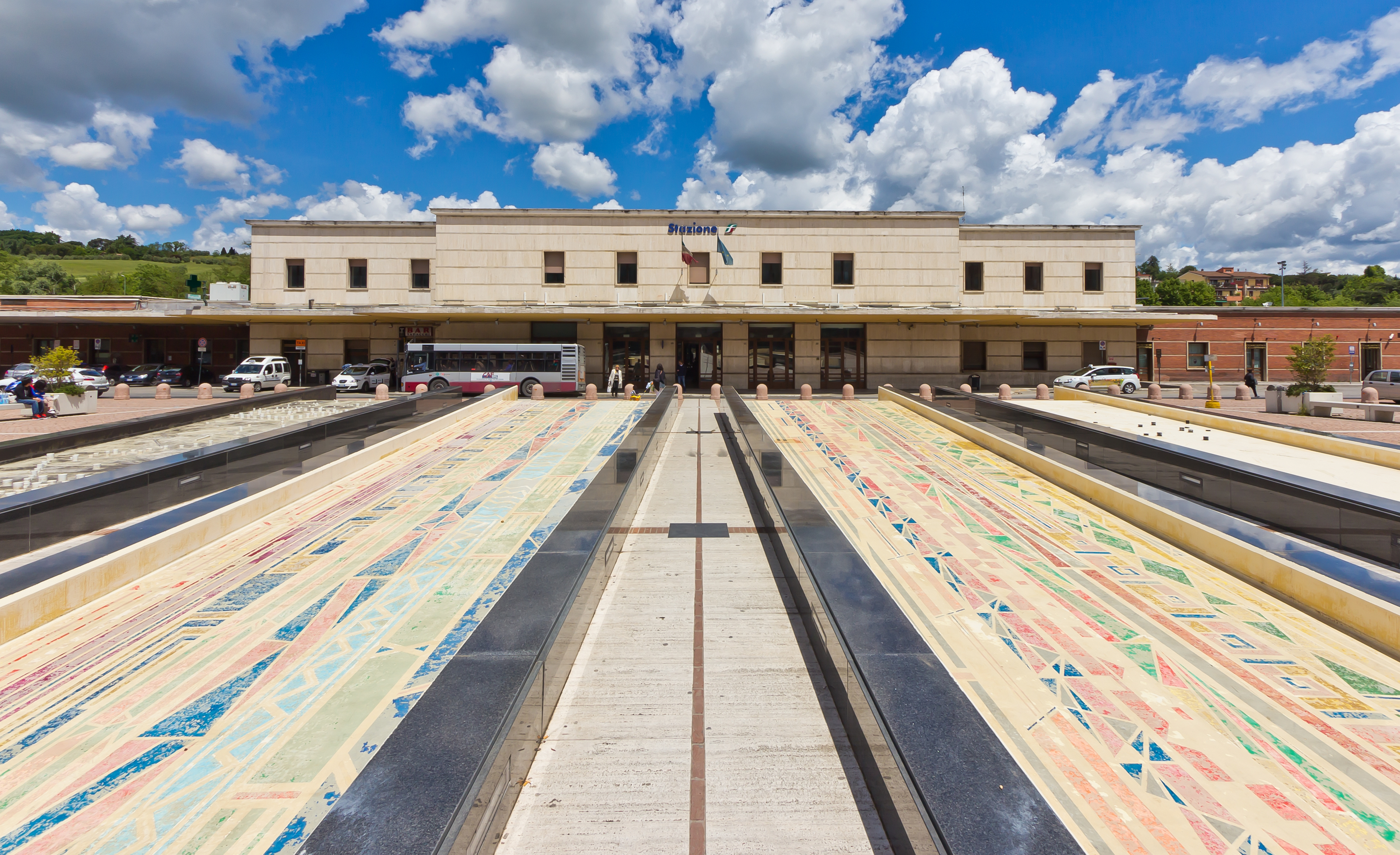 Train station of Siena, Tuscany, Italy